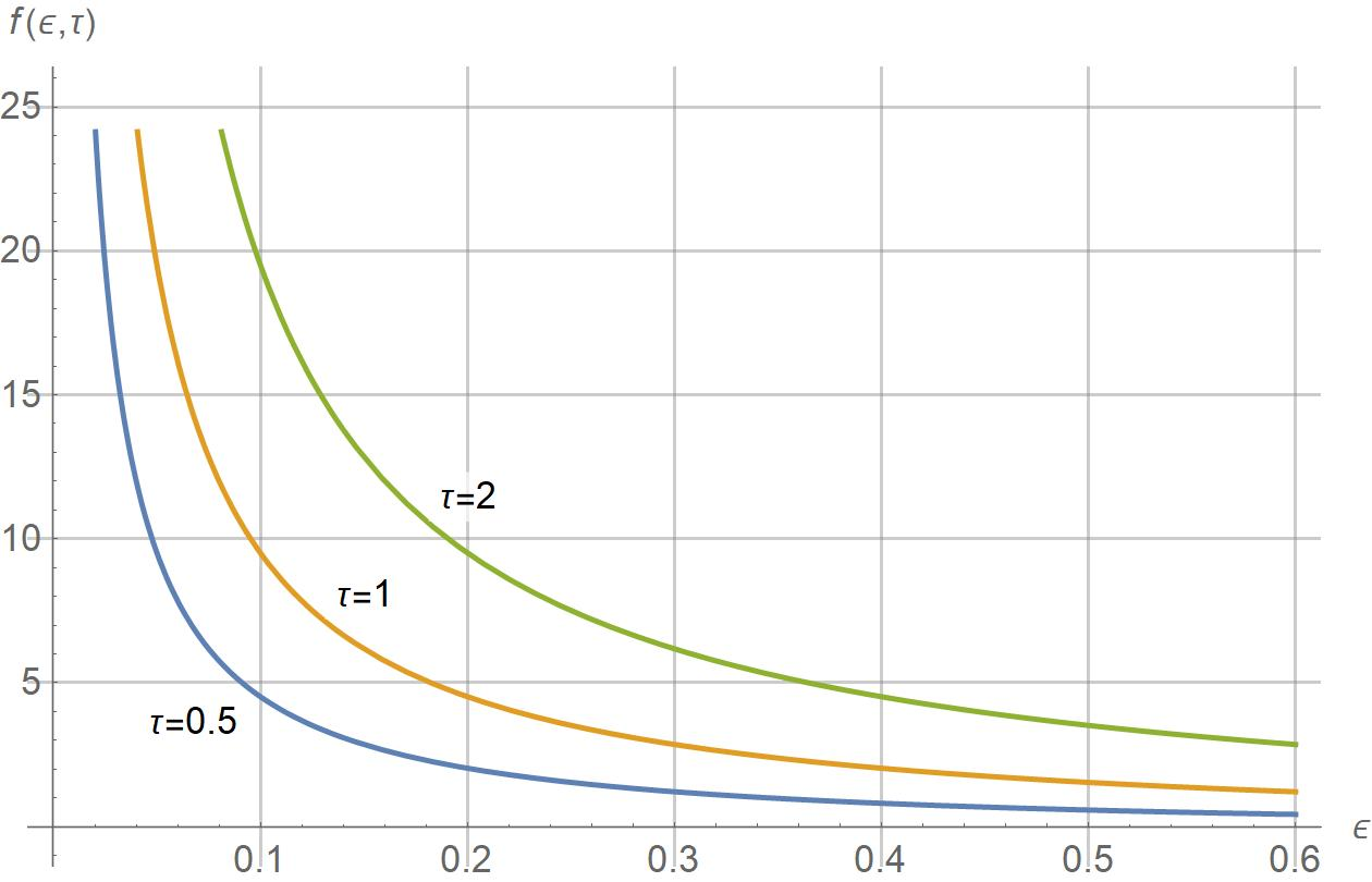 זוהי פונקציית חלוקת בוז-אינשטיין. מתוארים בו גרפים של 3 טמפרטורות שונות